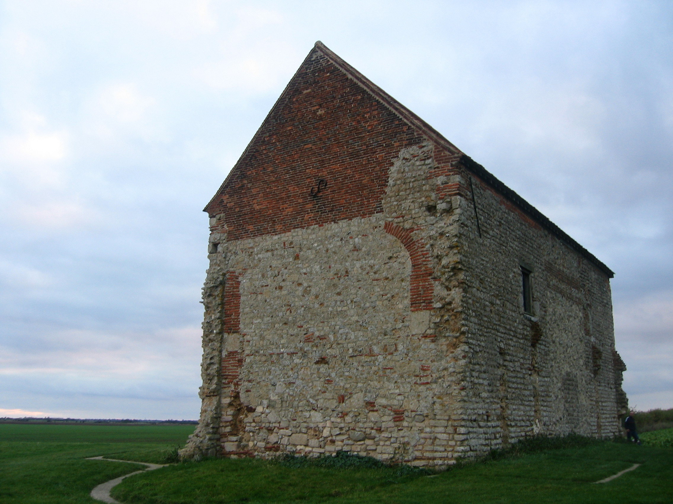 Summary:St Peter's Chapel, Bradwell-on-Sea, Essex Author:chelmsfordblue